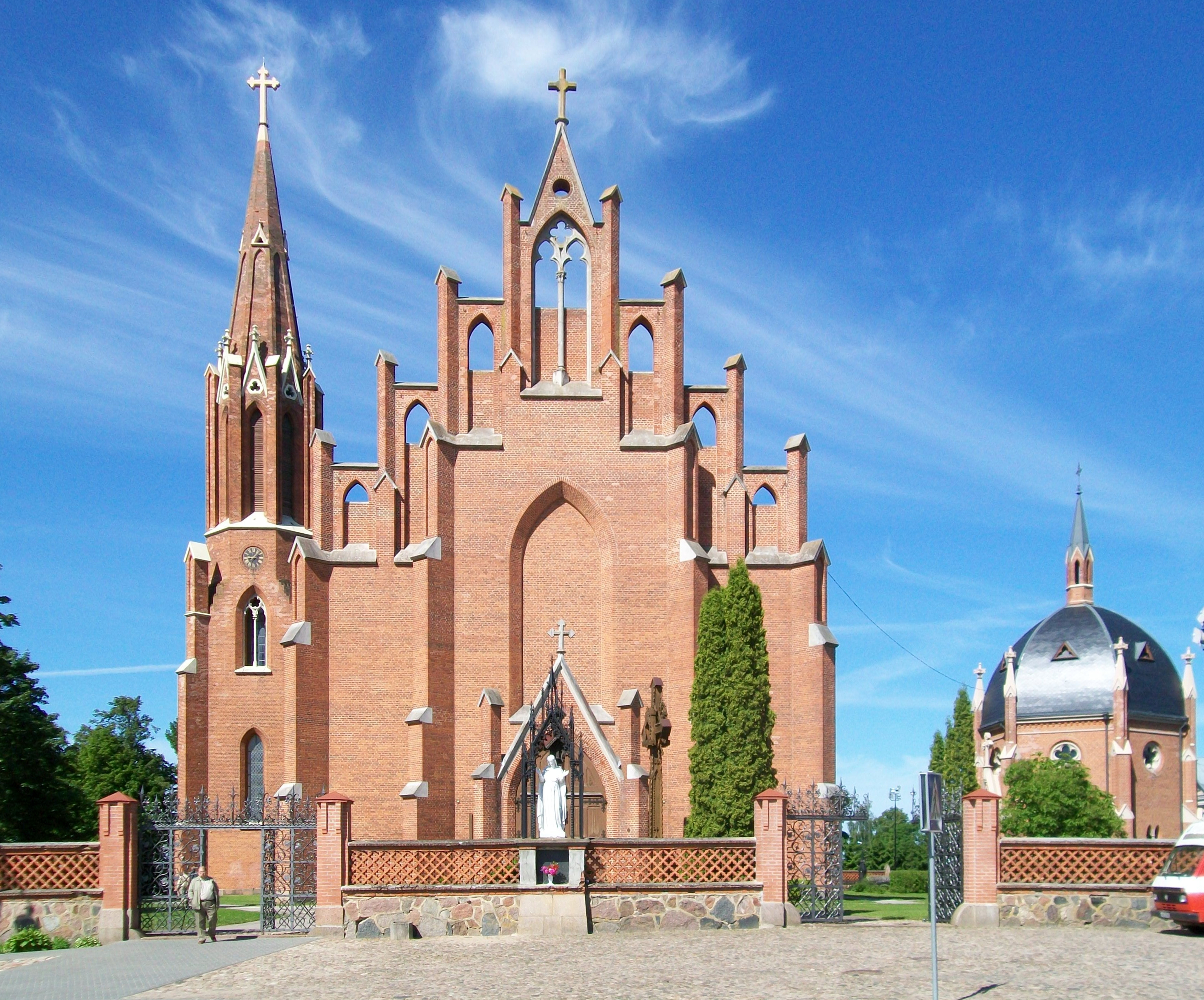 Frontal view of the Church of St Matthew the Apostle and Evangelist, Rokiškis, Lithuania